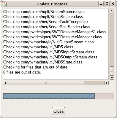 DKP Log Parser's implementation of a GUI for JUpdater's updating process.